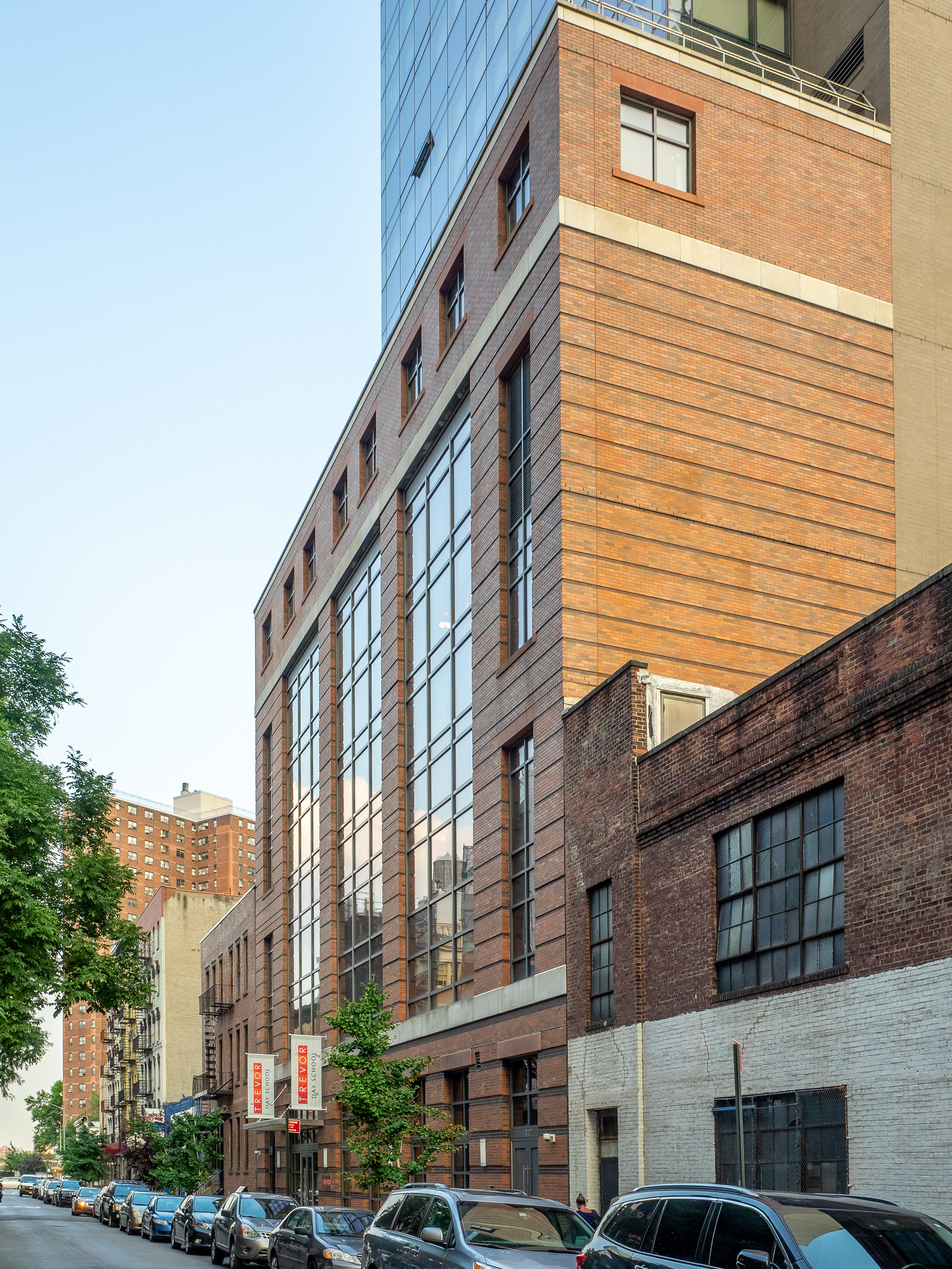 Upper East Side, Manhattan, New York